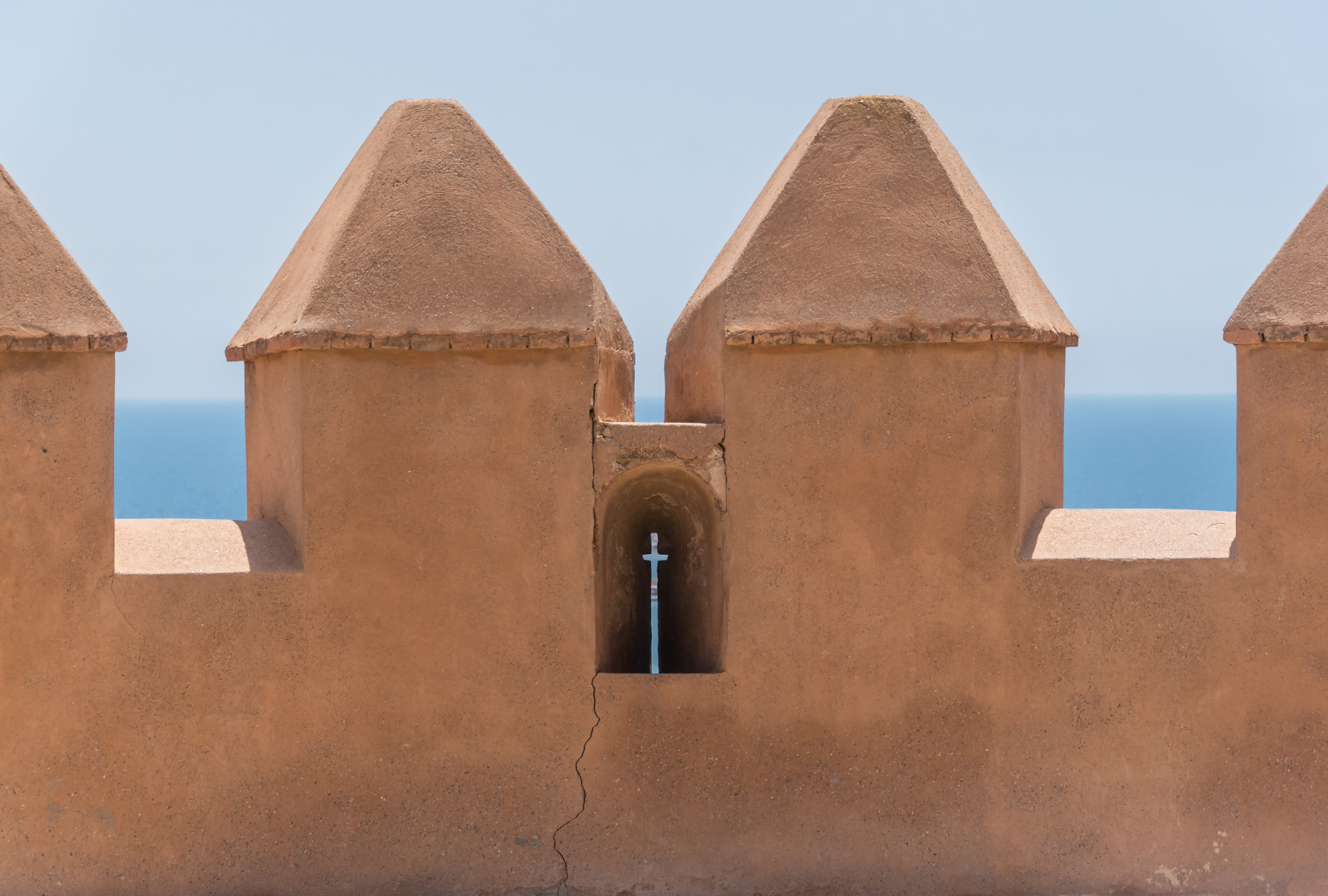 Merlons and horizon, Alcazaba, Almería, SpainDansk: Brystværn og horisont, Alcazaba, Almería, Spanien